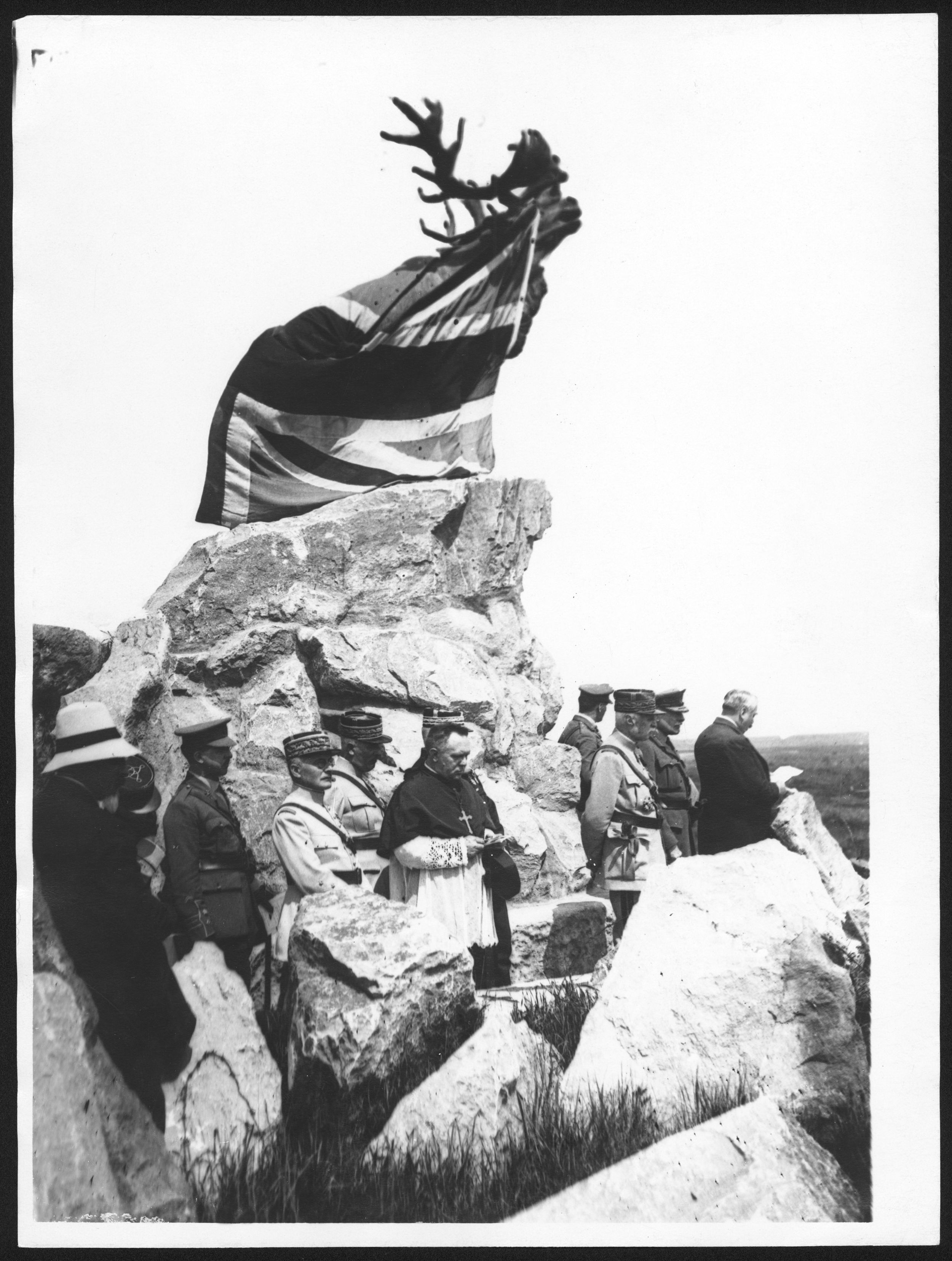 War memorial for Newfoundland soldiers at Beaumont Hamel, France, during World War I. This monument of a caribou at Beaumont Hamel, France, is dedicated to the Newfoundland soldiers who lost their lives on the first day of the Battle of the Somme: July 1st, 1916. Below the caribou, which is draped in a Union Jack, stand a group of dignitaries. Included in this group are Field Marshal Sir Douglas Haig (1861-1928) and French General, Marie Fayolle (1852-1928). Speaking is John R. Bennett, Colonial Secretary of Newfoundland. The original caption with the photograph is in French and it reads: "Beaumont Hamel. Le monument élevé à la mémoire des soldats de Terre Neuve. Discours de Mr Benett. À ses côtés : Mr D.Haig, Mr Fayolle. Ph. Ch. Biard Paris." Photographs from the Haig "Official Photographs" series with French Press Stamps or of France and the French.